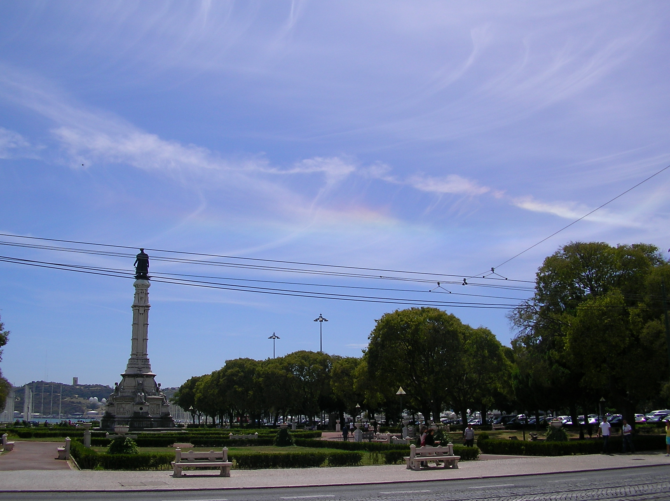 Irisation with cirrus and contrails. Photo taken at Albuquerque Square, Lisbon.